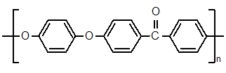 Polyetheretherketone01